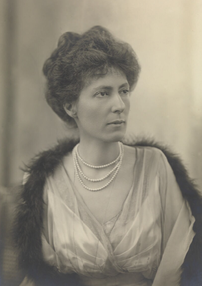 President Lady Helen Munro Ferguson (1869-1960), GBE, Australian Red Cross Society, British Red Cross Society. Wife of Viscount Novar. Probably photographed while her husband was Governor-General of Australia from 1914 to 1920.